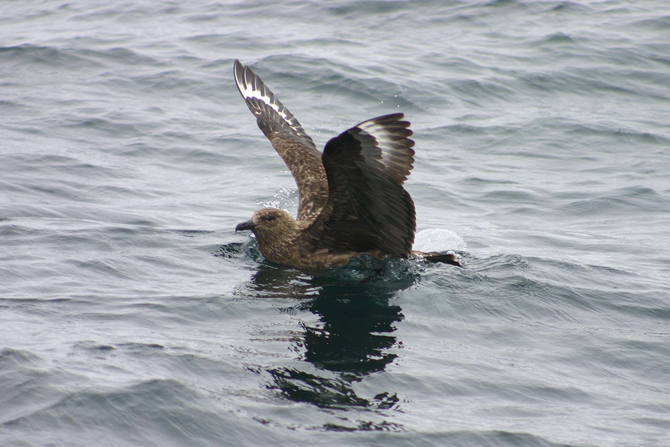 Picture taken off the coast of St Kilda, Western Scotland 2005.